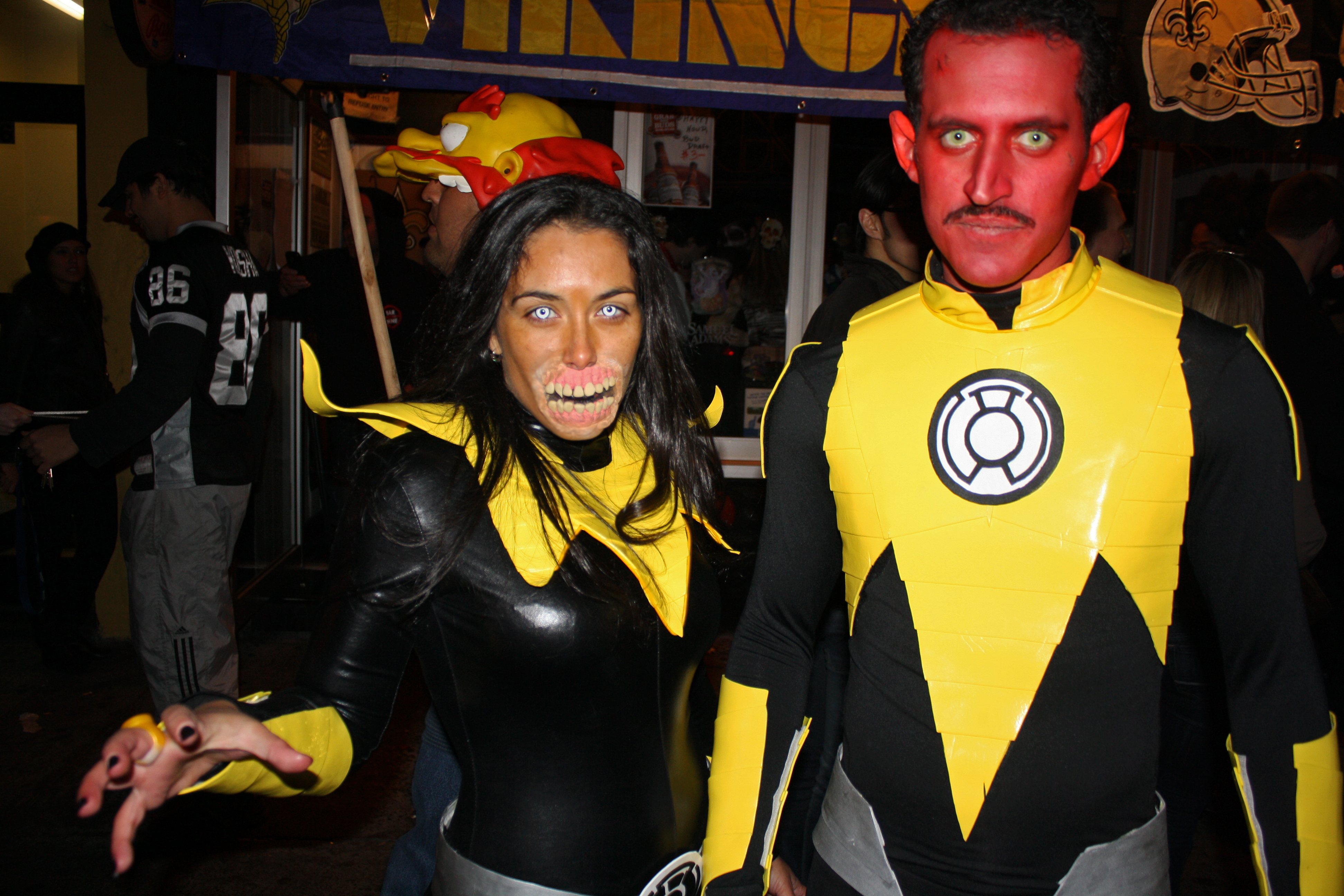 Sinestro and Karu-Sil, of the Sinestro Corps. 2nd Ave, NYC.